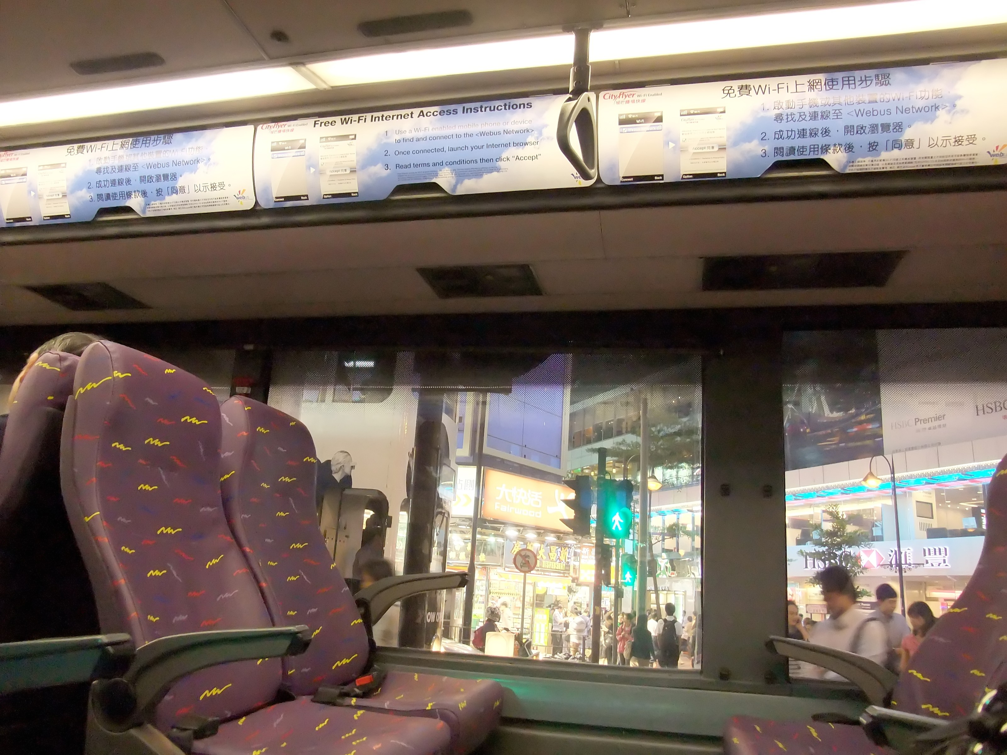 Interior of a Citybus route E11, showing the instructions for free Wi-Fi Internet accecss.